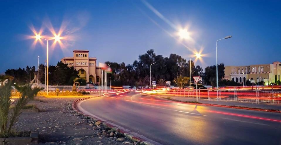 Biskra